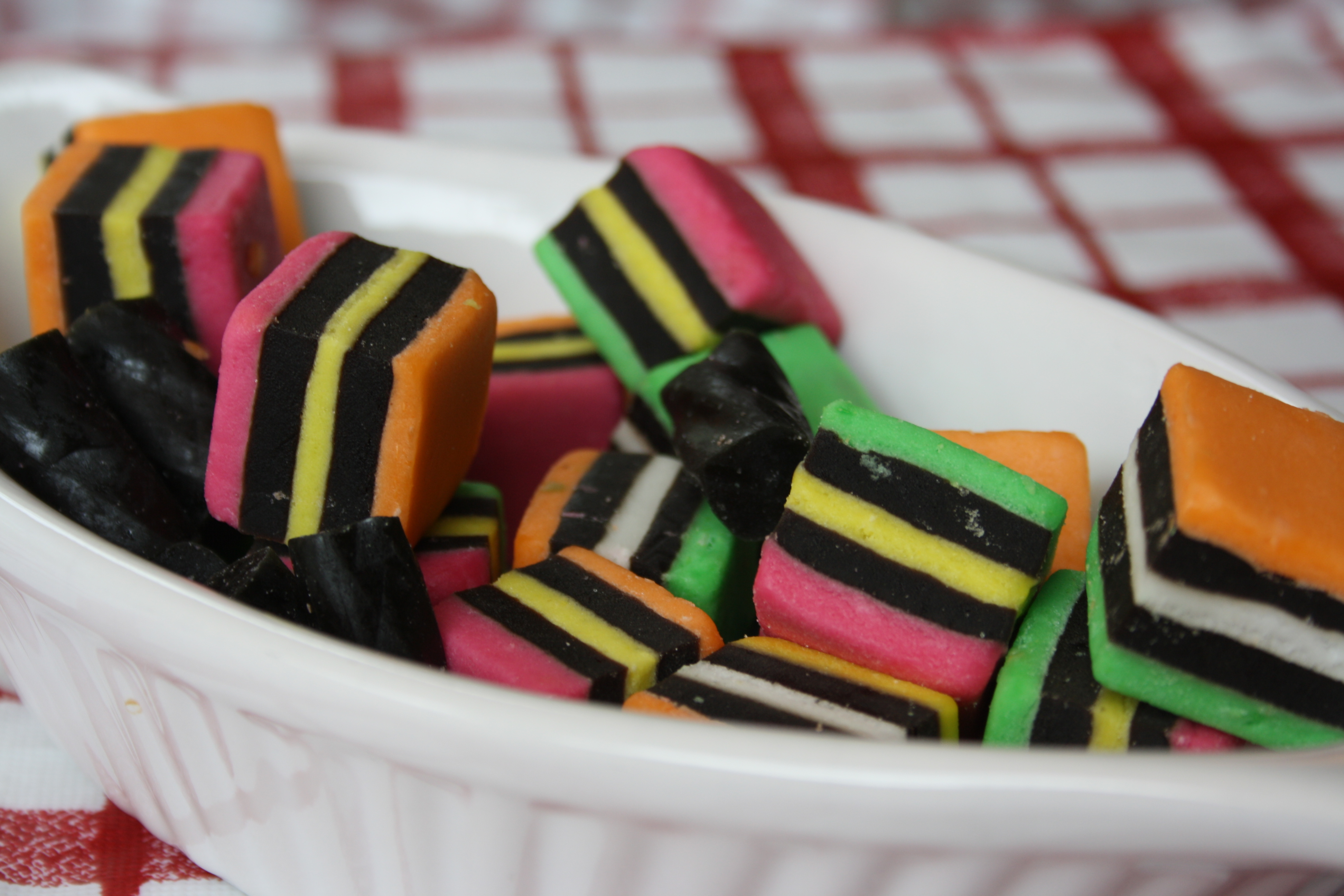 Liquorice allsorts.